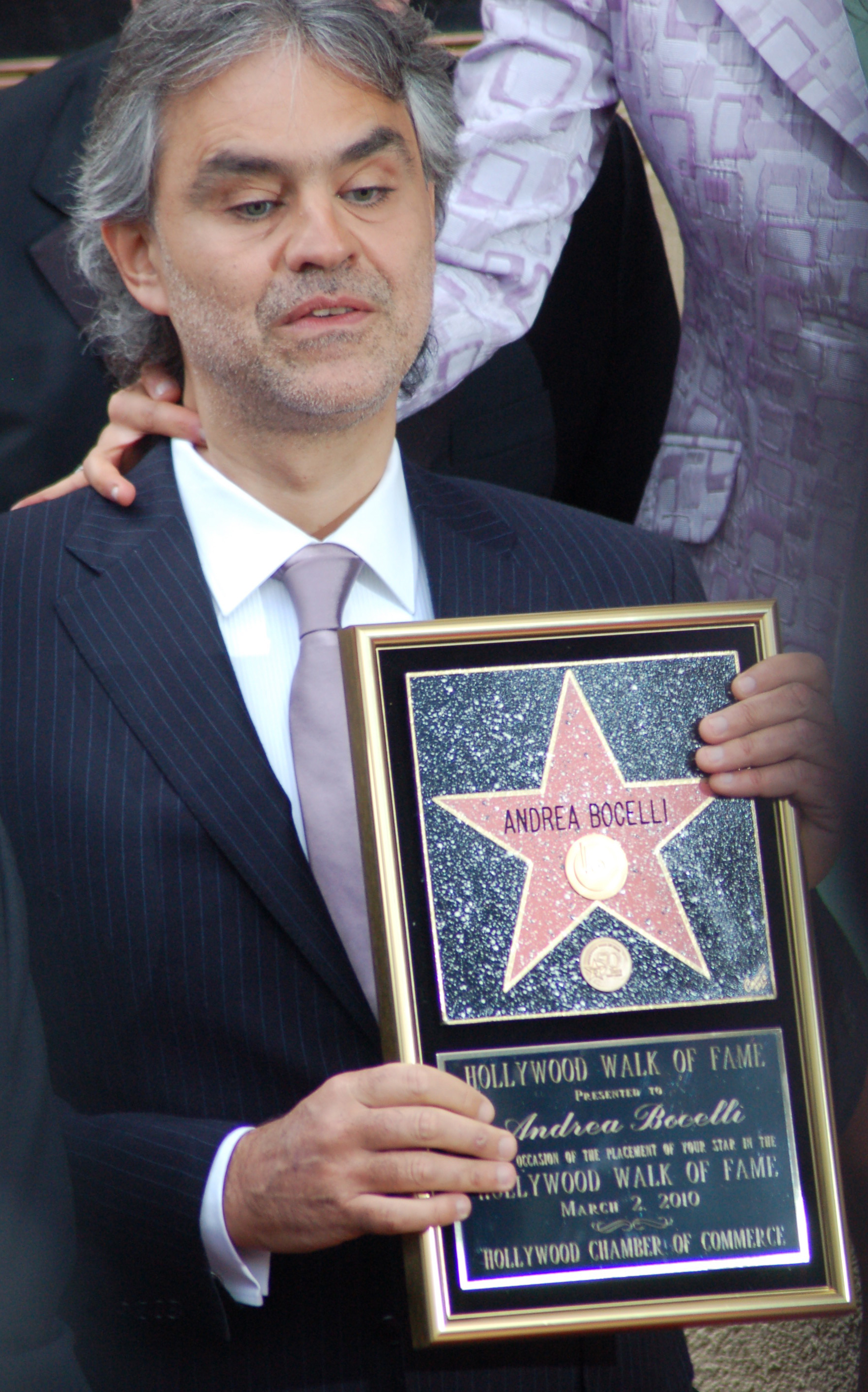 Andrea Bocelli at a ceremony to receive a star on the Hollywood Walk of Fame.